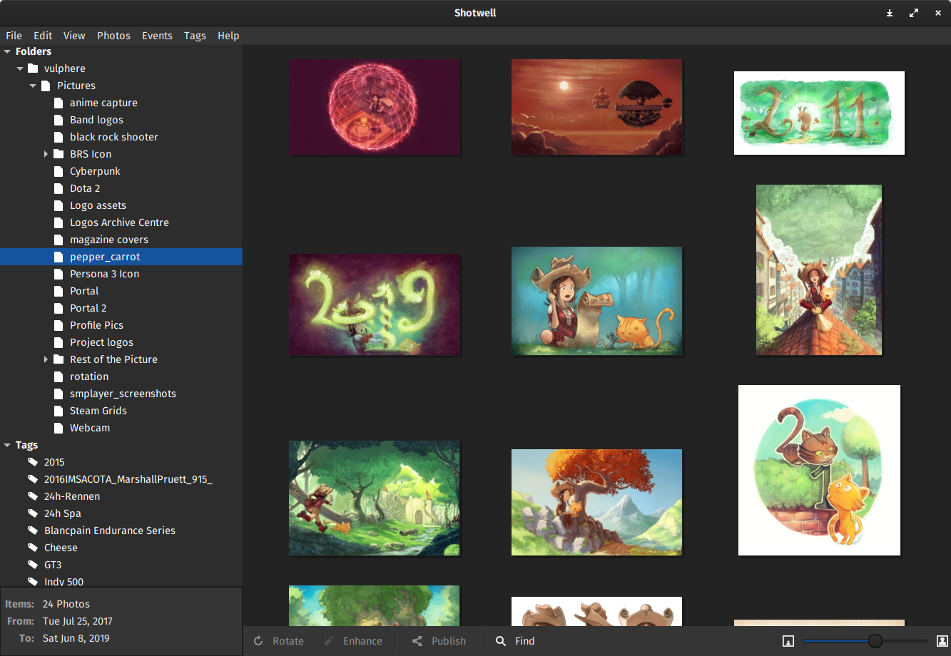 Screenshot of Shotwell (software) 0.30.4